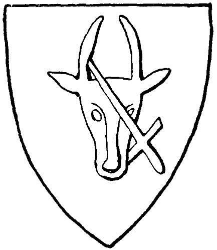 Coat of arms Pomian from the seal of Jarand of Brudzew, 1435